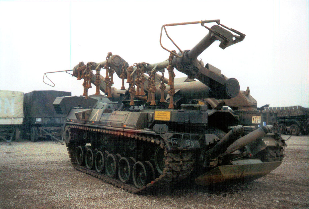 german Mine flail "Keiler" in SFOR-Camp Rajlovac near Sarajevo